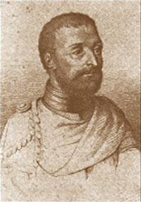 This portrait (Marasca Collection, Biblioteca Bertoliana of Vicenza) is traditionally beleived to represent Antonio Pigafetta. The ancient drawing was based on a statue in the Civic Museum of Vicenza, originally coming from St. Michael church (were the Pigafettas had a family tomb). It really represents another Pigafetta, Gio. Alberto of Gerolamo (d. 1562, 29 years old). Source: [1]